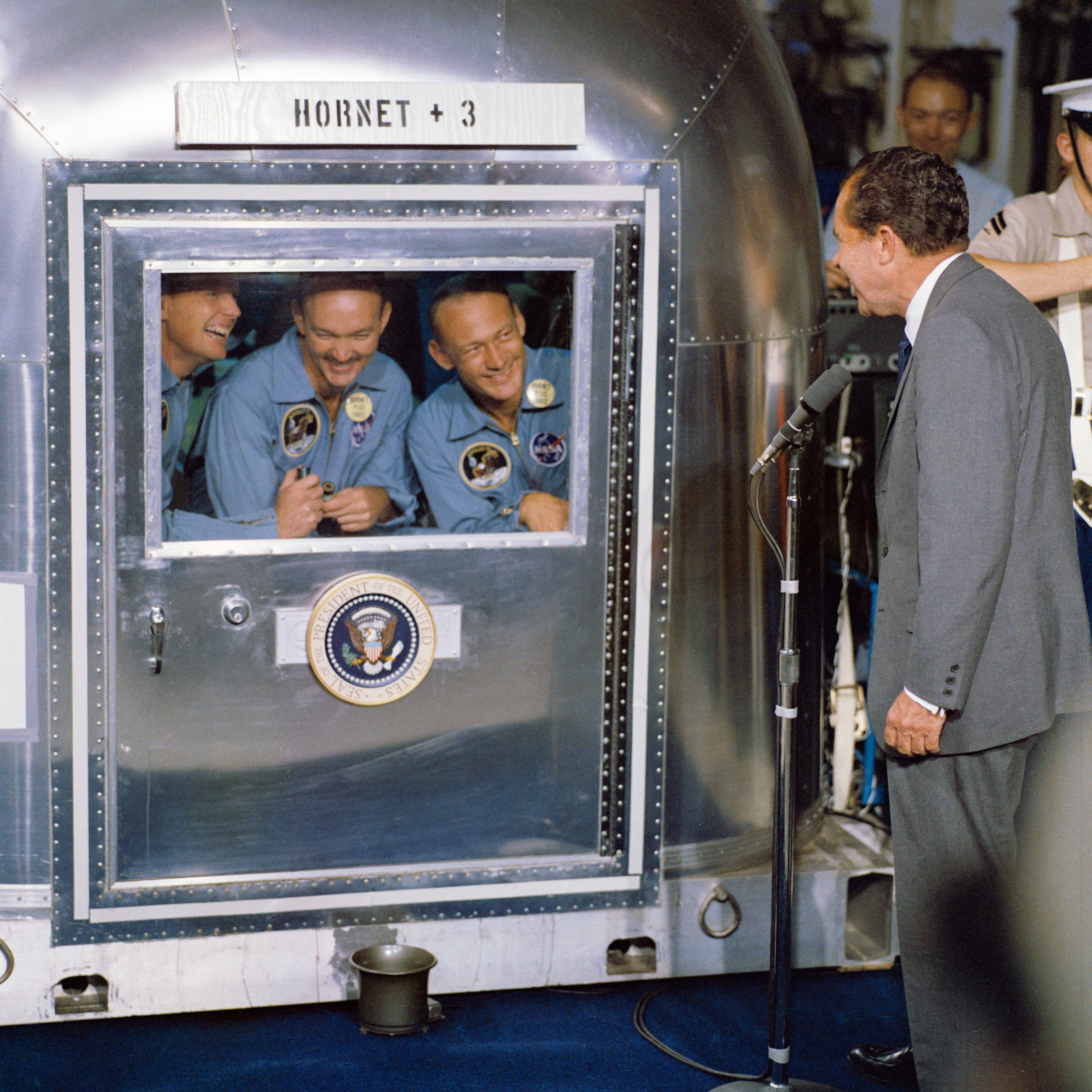 President Richard M. Nixon was in the central Pacific recovery area to welcome the Apollo 11 astronauts aboard the USS Hornet, prime recovery ship for the historic Apollo 11 lunar landing mission. Already confined to the Mobile Quarantine Facility (MQF) are (left to right) Neil A. Armstrong, commander; Michael Collins, command module pilot; and Edwin E. Aldrin Jr., lunar module pilot. Apollo 11 splashed down at 11:49 a.m. (CDT), July 24, 1969, about 812 nautical miles southwest of Hawaii and only 12 nautical miles from the USS Hornet.